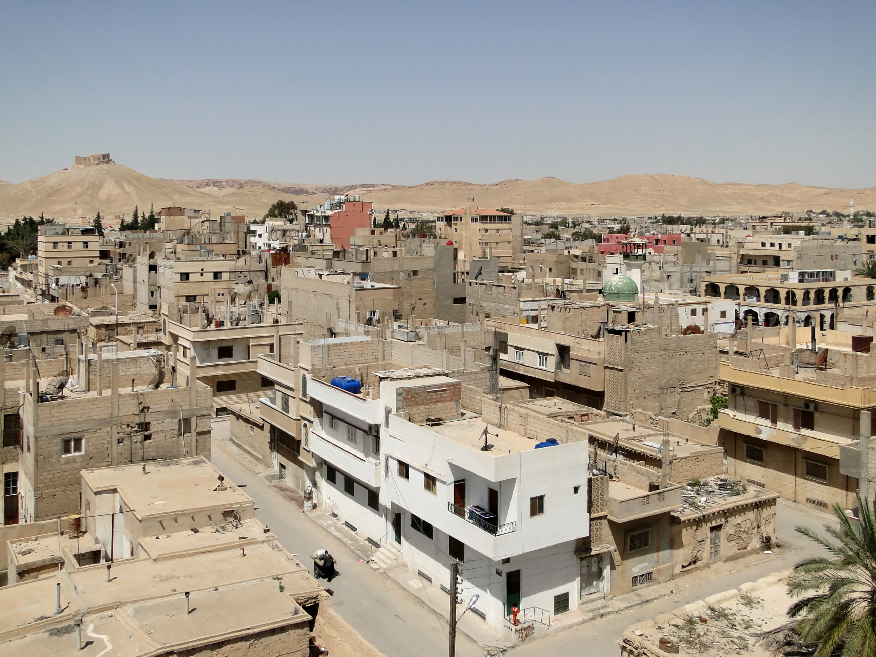 City of Tadmor beside the site of Palmyra in Syria